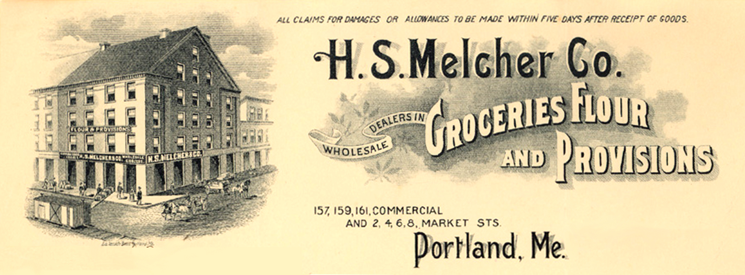 Masthead for the H.S. Melcher & Co.